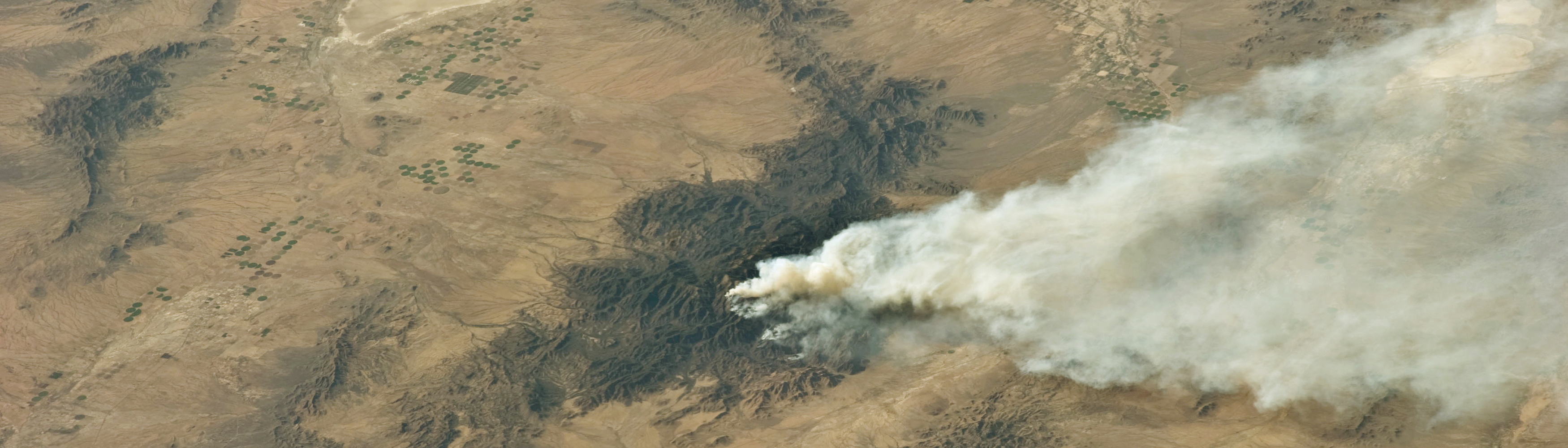 This astronaut photograph illustrates the area (approximately 8,900 hectares, or 22,110 acres) and position of the Horseshoe 2 fire within the Chiricahua Mountains on May 15, 2011, as well as an extensive smoke plume extending to the east-north-east over a distance of at least 60 kilometres. The image highlights a contrast in environments; pine and oak forest contributes to the dark coloration of the upper slopes and peaks of the Chiricahuas at image center, while the flat, gray to tan surface of Willcox Playa (an interior-draining basin or dry lake) to the northwest is indicative of the adjacent desert environment.